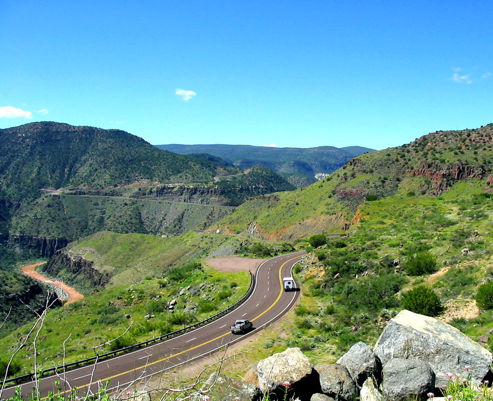 Arizona-77 in Salt River Canyon, north of Globe, south of Show Low. taken by me, Sept. 10, 2006